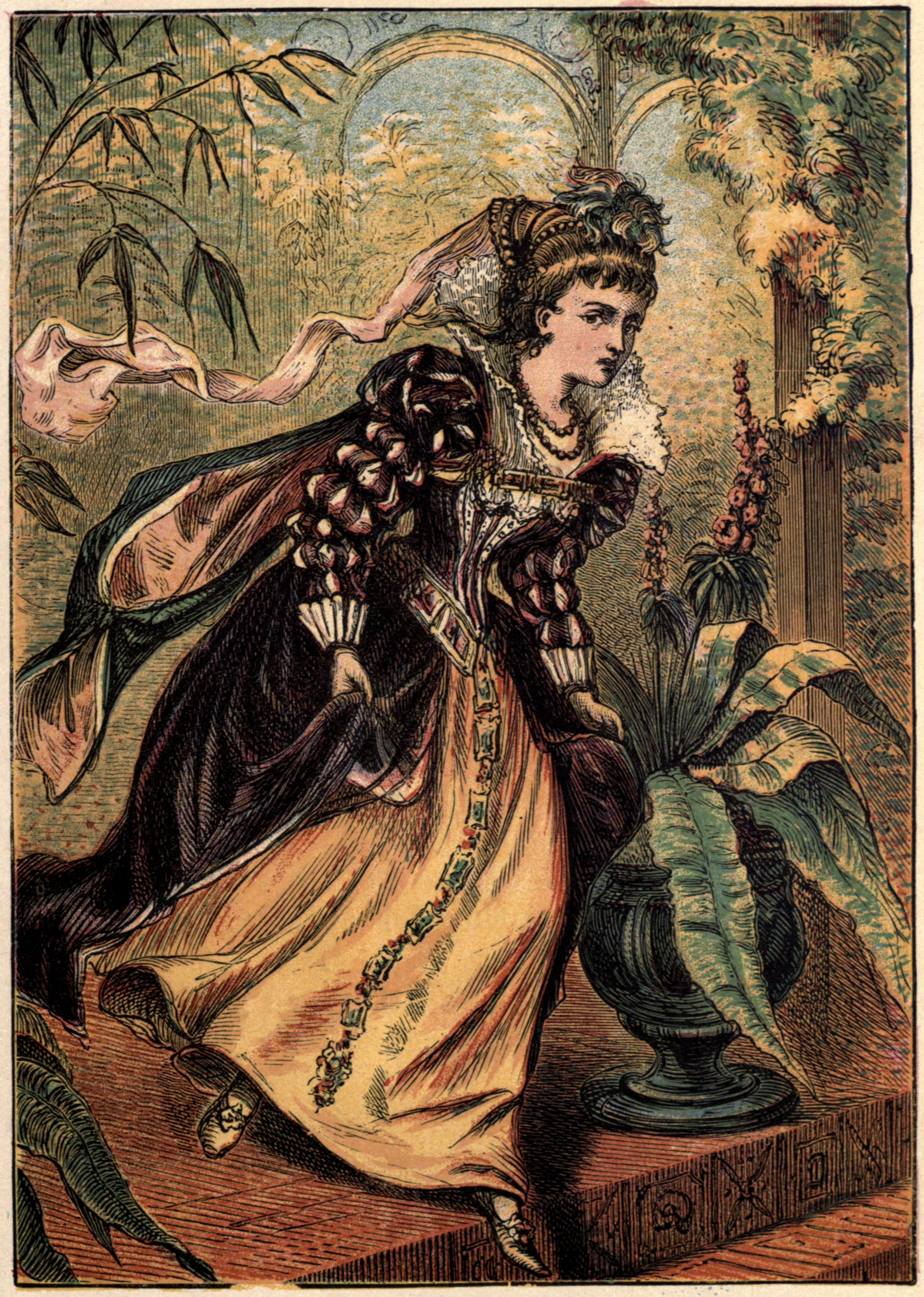 The fifth illustration of the 1865 edition of Cinderella. It appears on page 9.